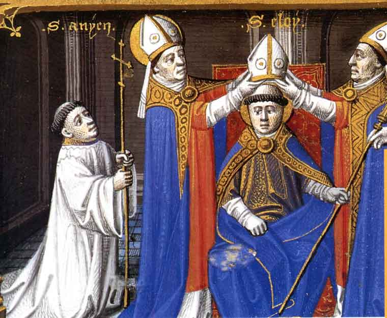 Ordination of Saint Eligius as bishop of Noyon, 15th century